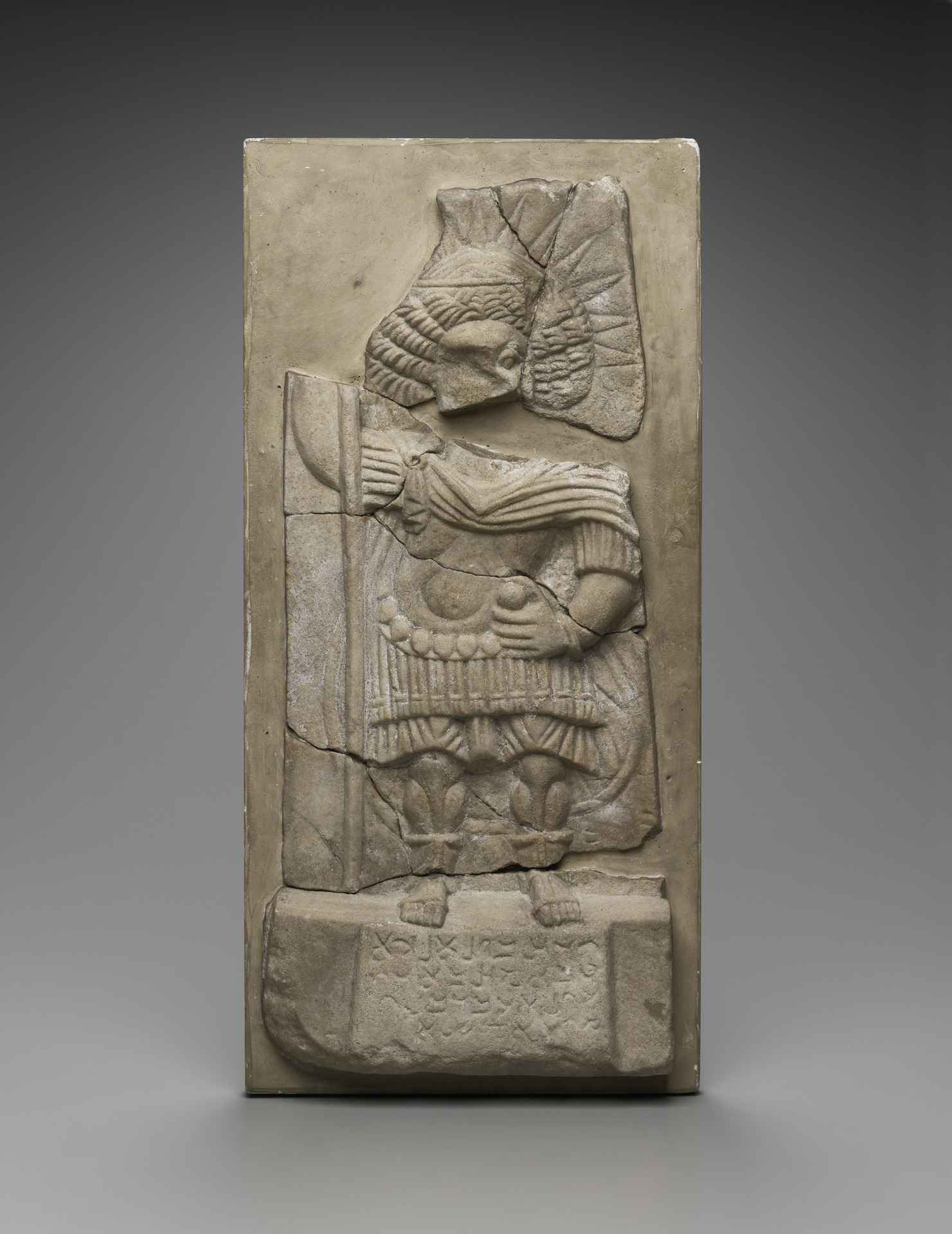 Relief of Iarhibol, Yale-French Excavations at Dura-Europos